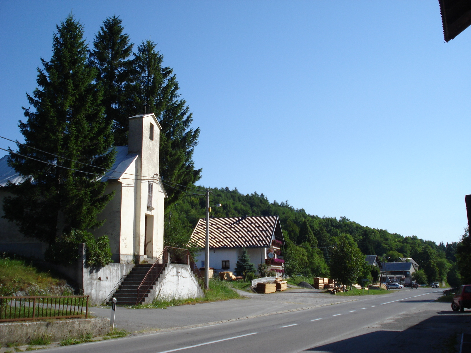 Modruš, village in Croatia - main street